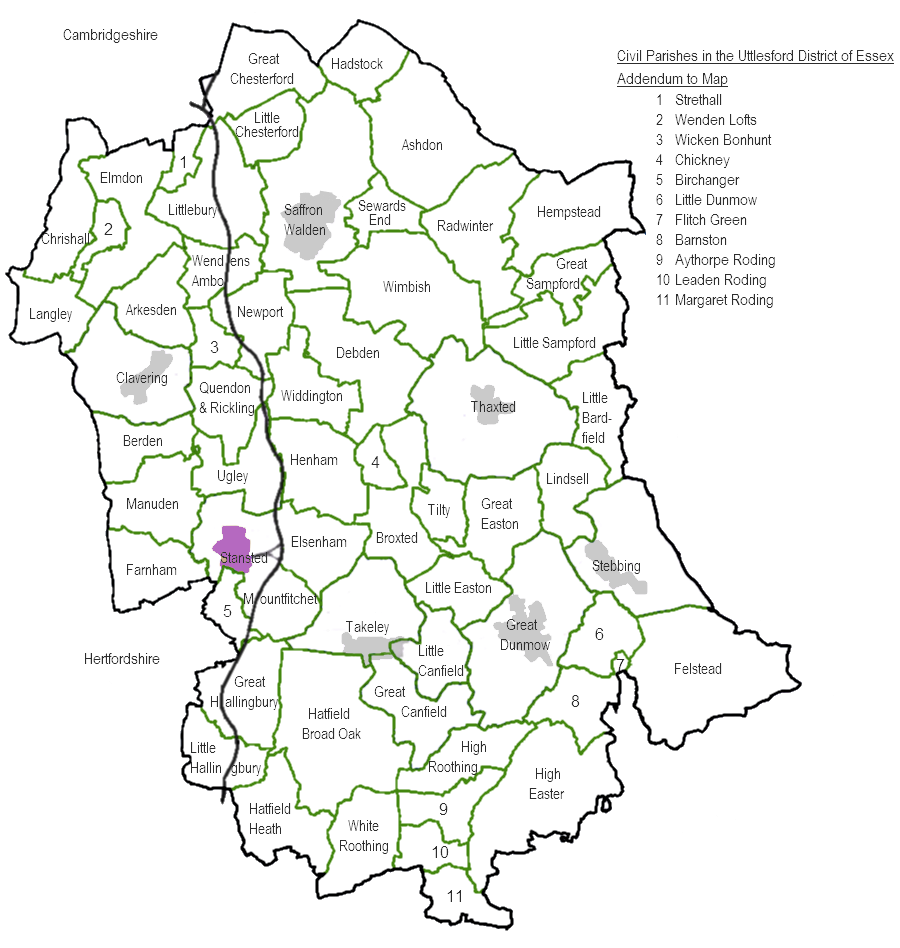 Map of Town Councils and Parish Councils for Civil Parishes in Uttlesford, Essex, United Kingdom.